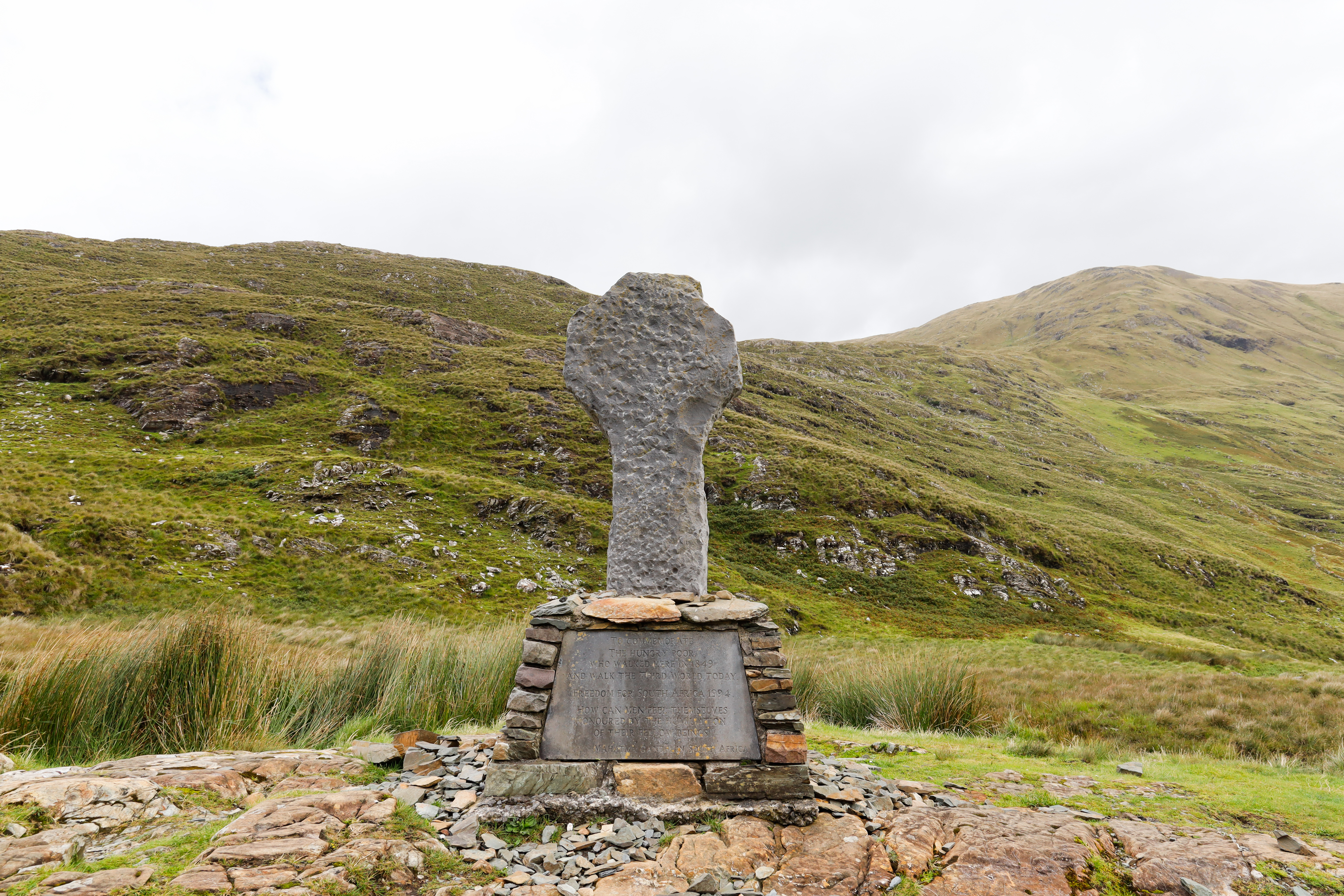 Doolough Memorial in memory of the Great Famine and in commemoration of the end of apartheid in South Africa at the Doolough Valley, Co. Mayo, erected by Afri in 1994, and unveiled by Karen Gearon, one of the Dunnes Stores strikers who refused to handle South African produce. Inscription at the front: “To commemorate the hungry poor who walked here in 1849 and walk the third world today. Freedom for South Africa 1994. How can men feel themselves honoured by the humiliation of their fellow beings. Mahatma Gandhi in South Africa.” Inscriptions at the side panels: “In 1991 we walked AFrIs Great Famine Walk at Doolough and soon afterwards we walked the road to freedom in South Africa. Archbishop Desmond Tutu.” “Unveiled by Karen Gearon, Dunnes Stores Strikers, 7th May 1994. Erected by AFrI.” The memorial was unveiled during the seventh annual ‘Famine Walk’, led by Arun Gandhi, a grandson of the late Mahatma Gandhi, to commemorate the tragedy of Doolough and the 125th birthday of his grandfather. (See Allen Meagher, 1,000 join Mr. Gandhi on ‘Famine Walk’, Mayo News, 11 May 1994, p. 35.)